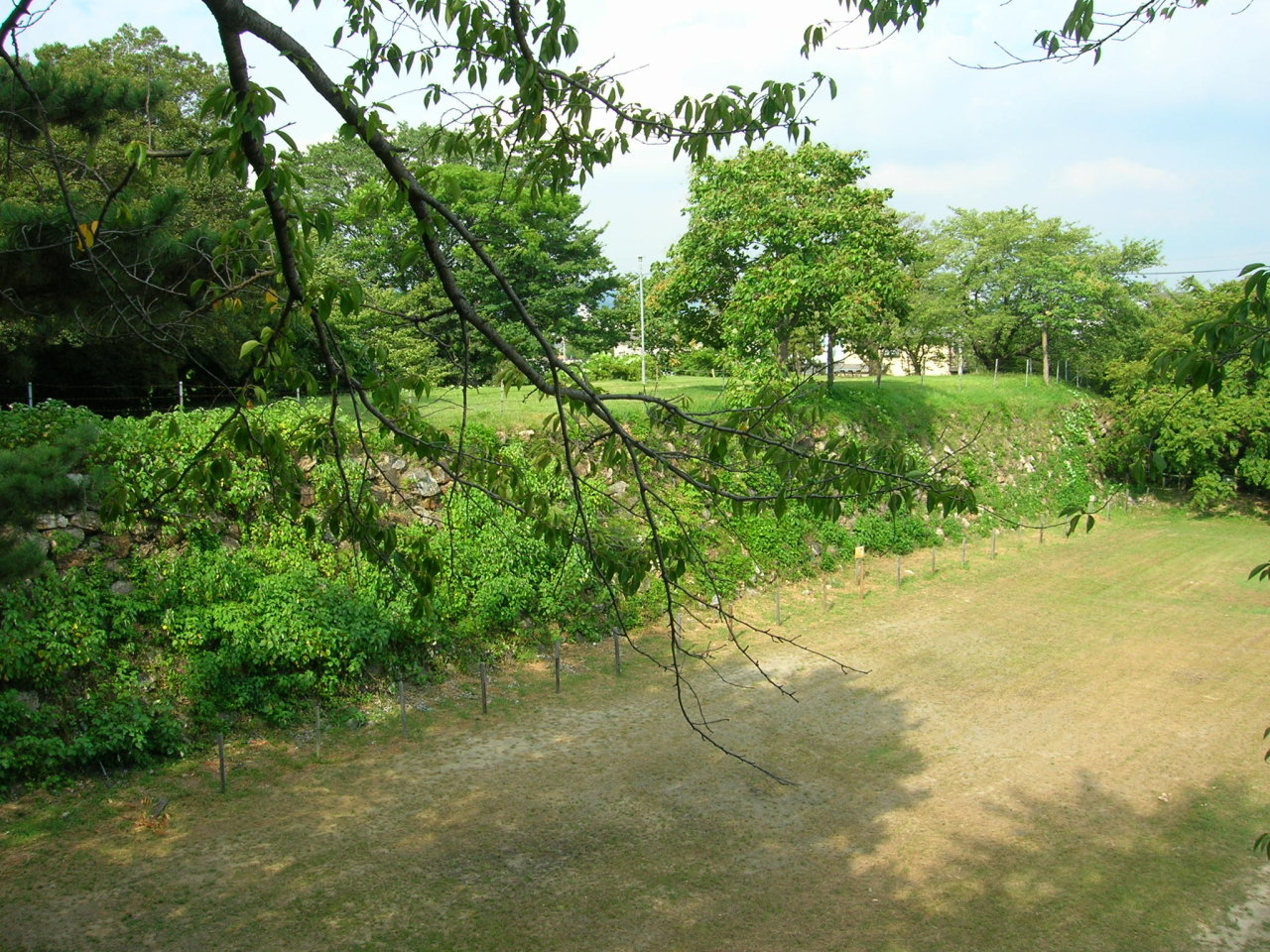 Site of Kano castle. Loc: Gifu city, Gifu Prefecture, Japan 加納城址（美濃國） 撮影場所 岐阜県岐阜市加納丸之内